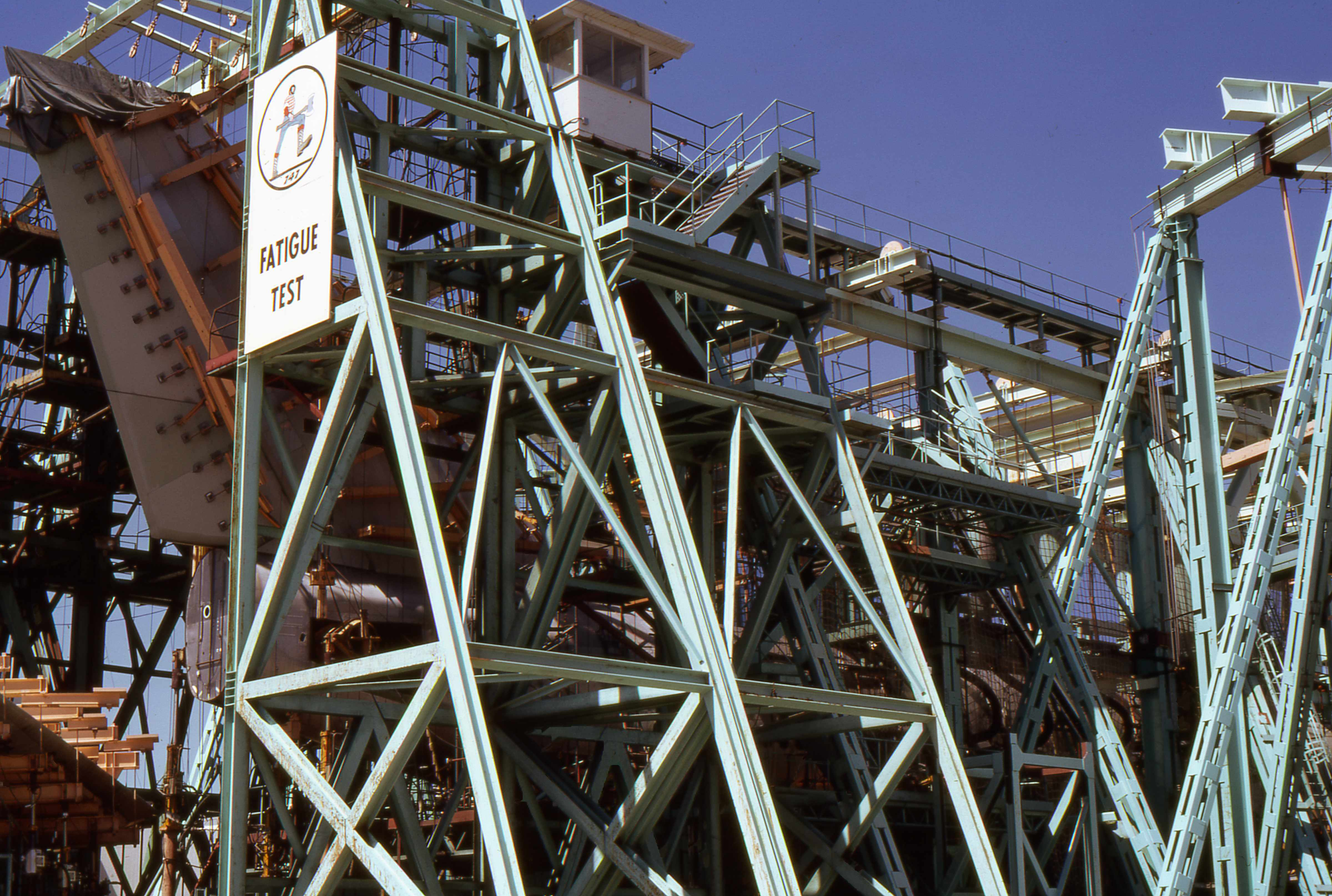 Boeing Everett Factory, the structure fit for the fatigue test.